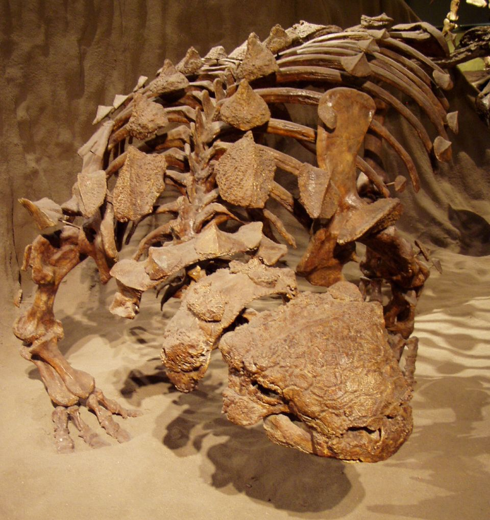 Reconstruction of specimen ROM 1930.